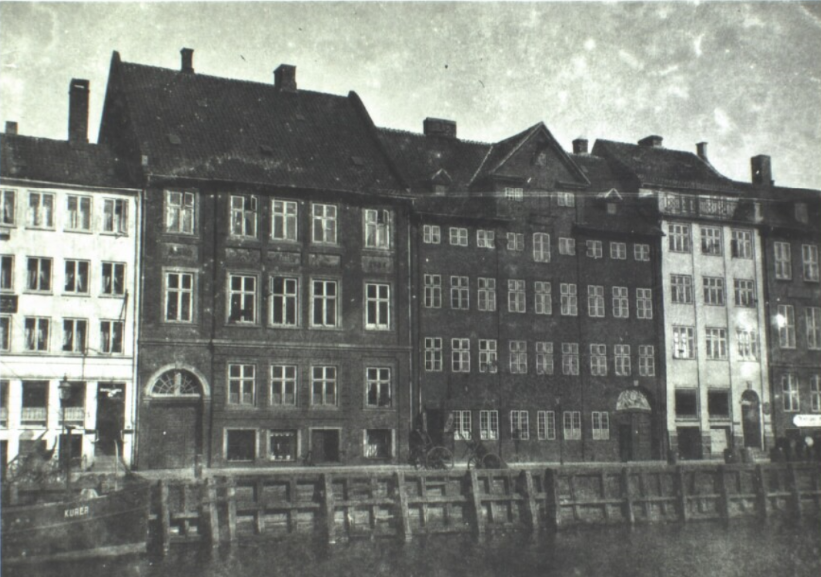 Nyhavn 63-67 in Copenhagen, Denmark